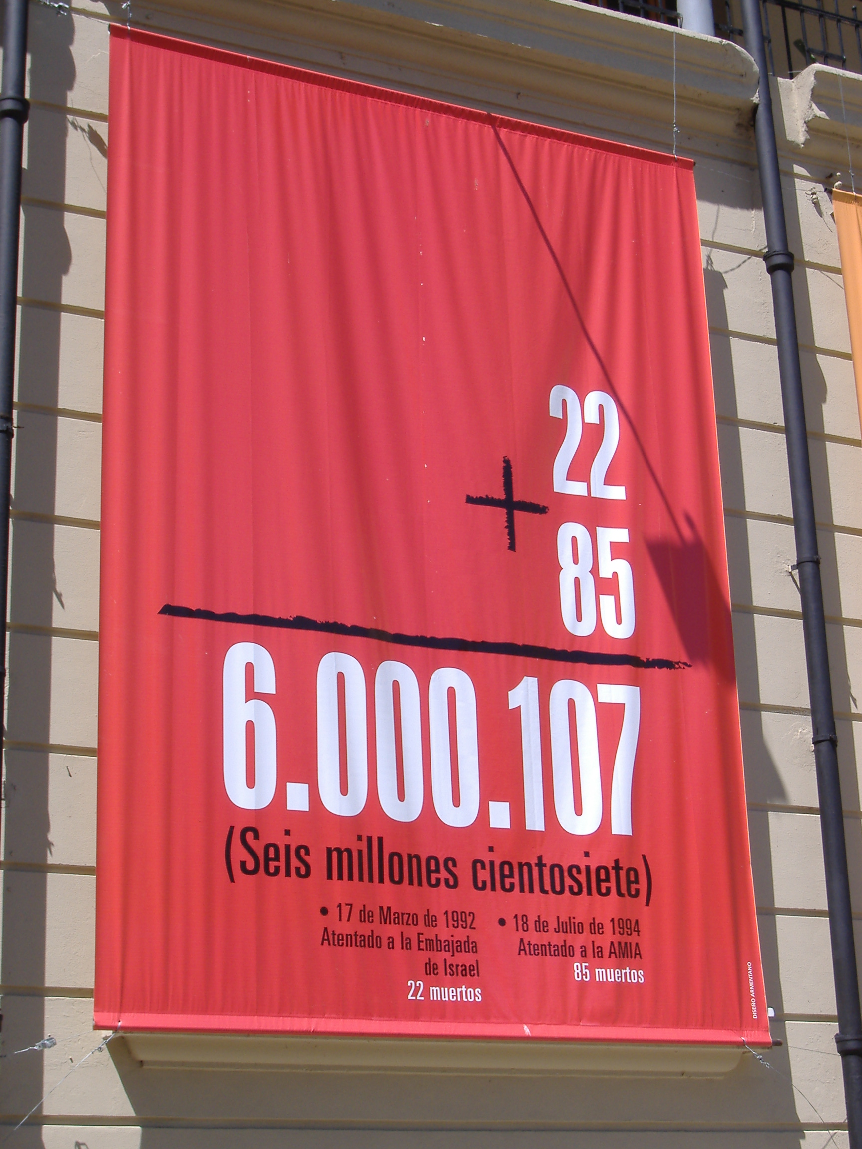 A banner commemorating the bombings of the Israeli Embassy in Buenos Aires and the bombing of the AMIA Jewish community center, in an urban square dedicated to peace in Rosario, Argentina. The banner shows a sum, 22 + 85 (the number of deceased in each bombing) and the result, 6,000,107, which is a reference to the number of Jews killed in the Holocaust. This picture was taken by Pablo D. Flores on 7 March 2006.